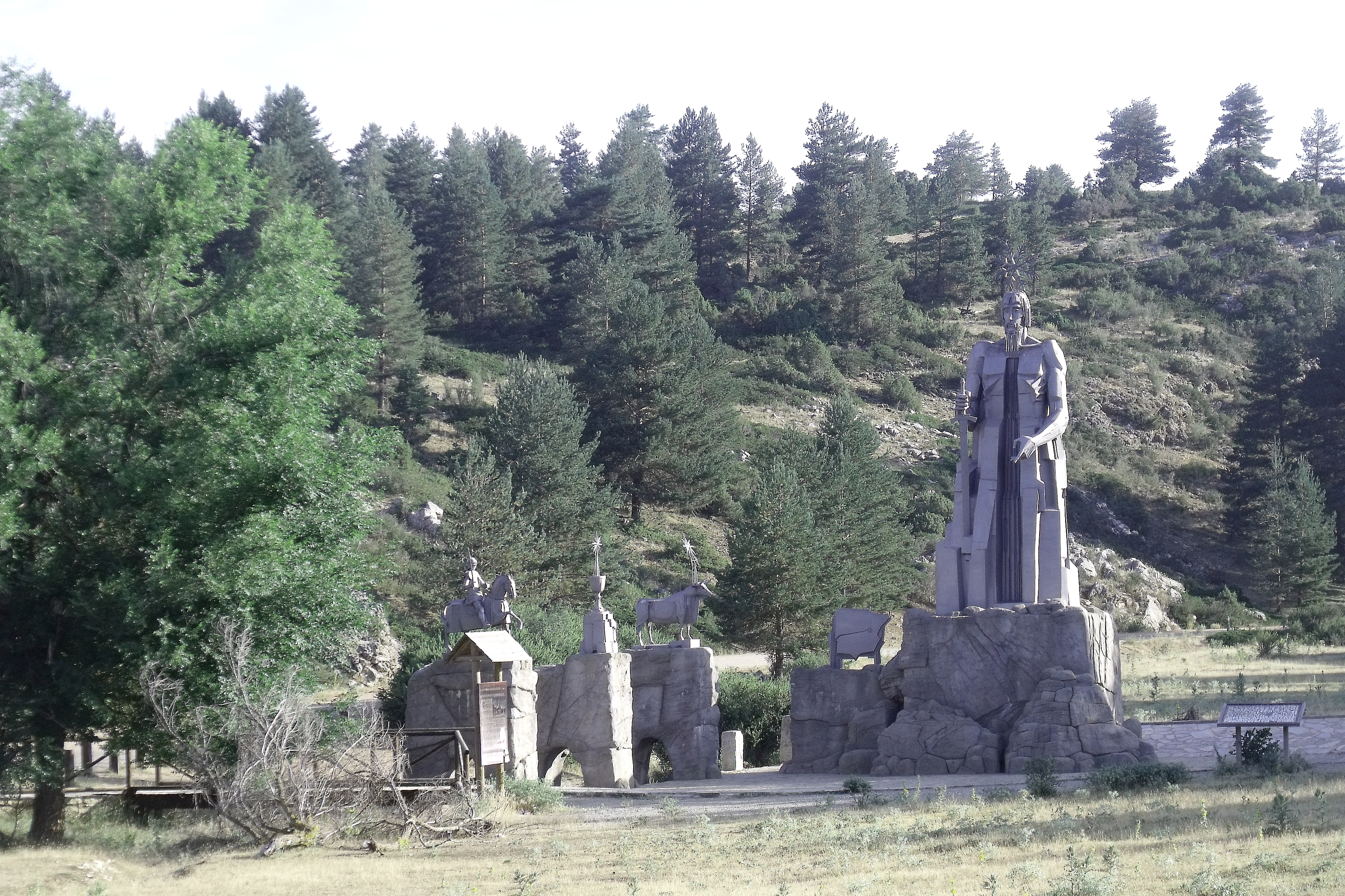 Monument of the source of the Tagus